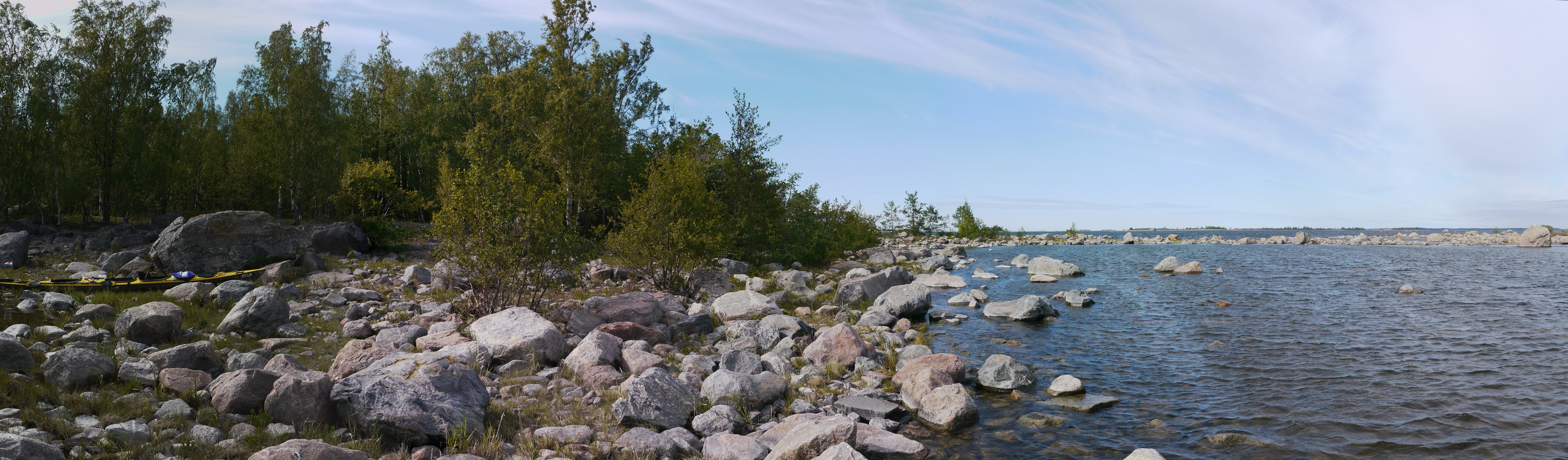 wild camping on Båsjälören, a small Finnish island in Kvarken, in the gulf of Bothnia.